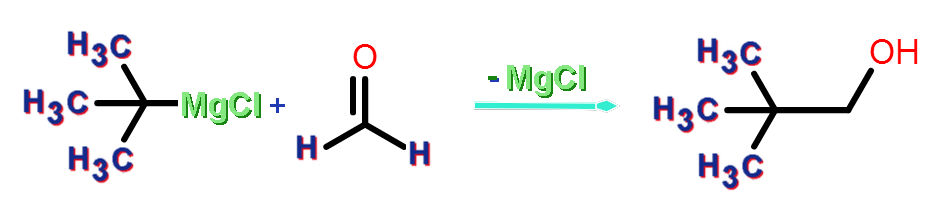 Neopentyl alcohol synthesis from tert-butil-magnesium chloride and formaldehyde